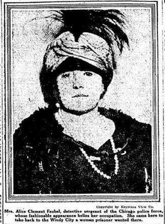 A photo of Alice Clement from the New York Evening Telegraph on May 21, 1922.